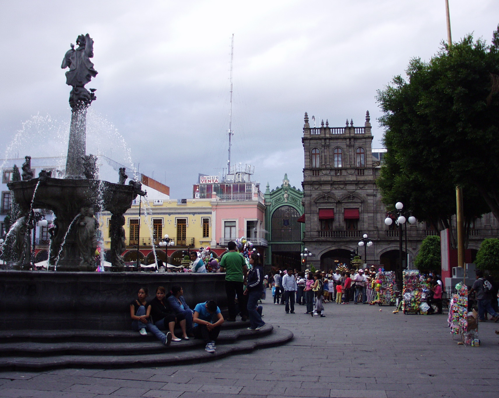 Zócalo plaza and fountain — within the Historic center of Puebla, in the City of Puebla, Puebla state, México.